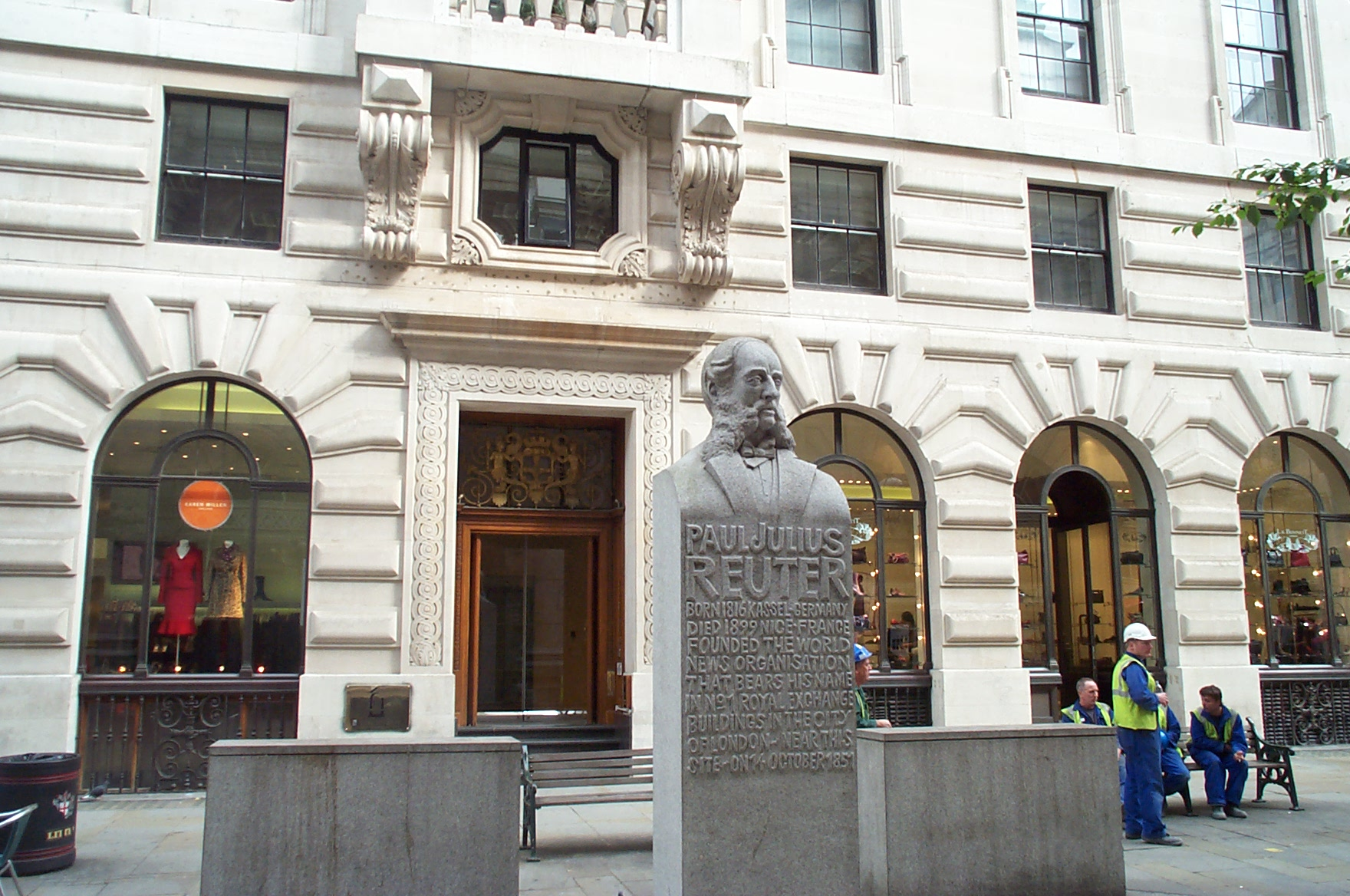 statue of Paul Reuter in the City of London, 2004-09-21. Copyright © 2004 Kaihsu Tai.